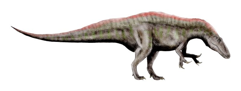 Acrocanthosaurus atokensis, a carnosaur from the early cretaceous of North America, pencil drawing